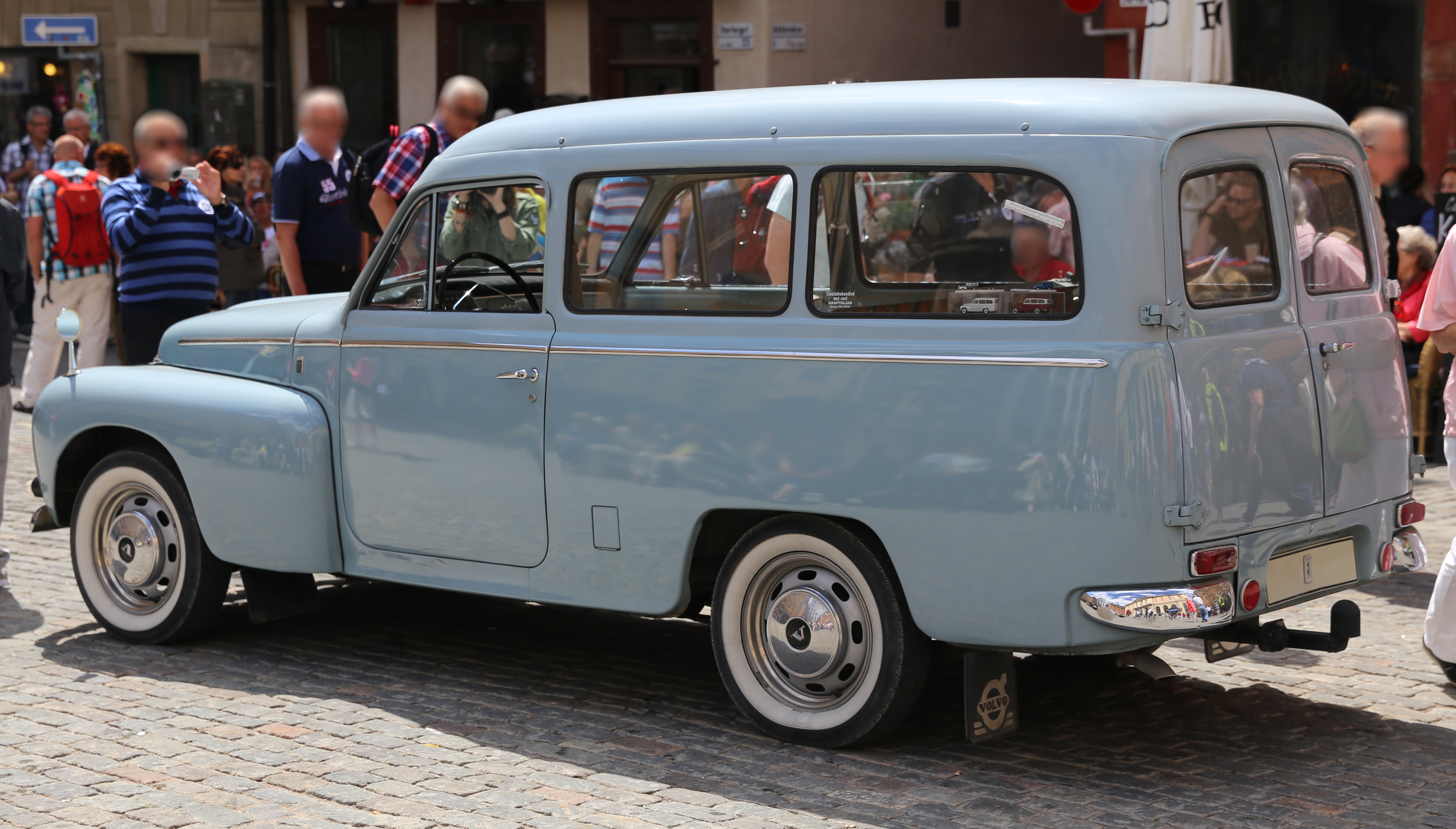 1965 Volvo P210 ("Duett"), model code 21134 E. In Stockholm's Gamla Stan.